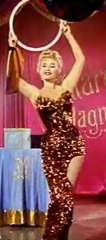 Cropped screenshot of Zsa Zsa Gabor from the trailer for the film Lili